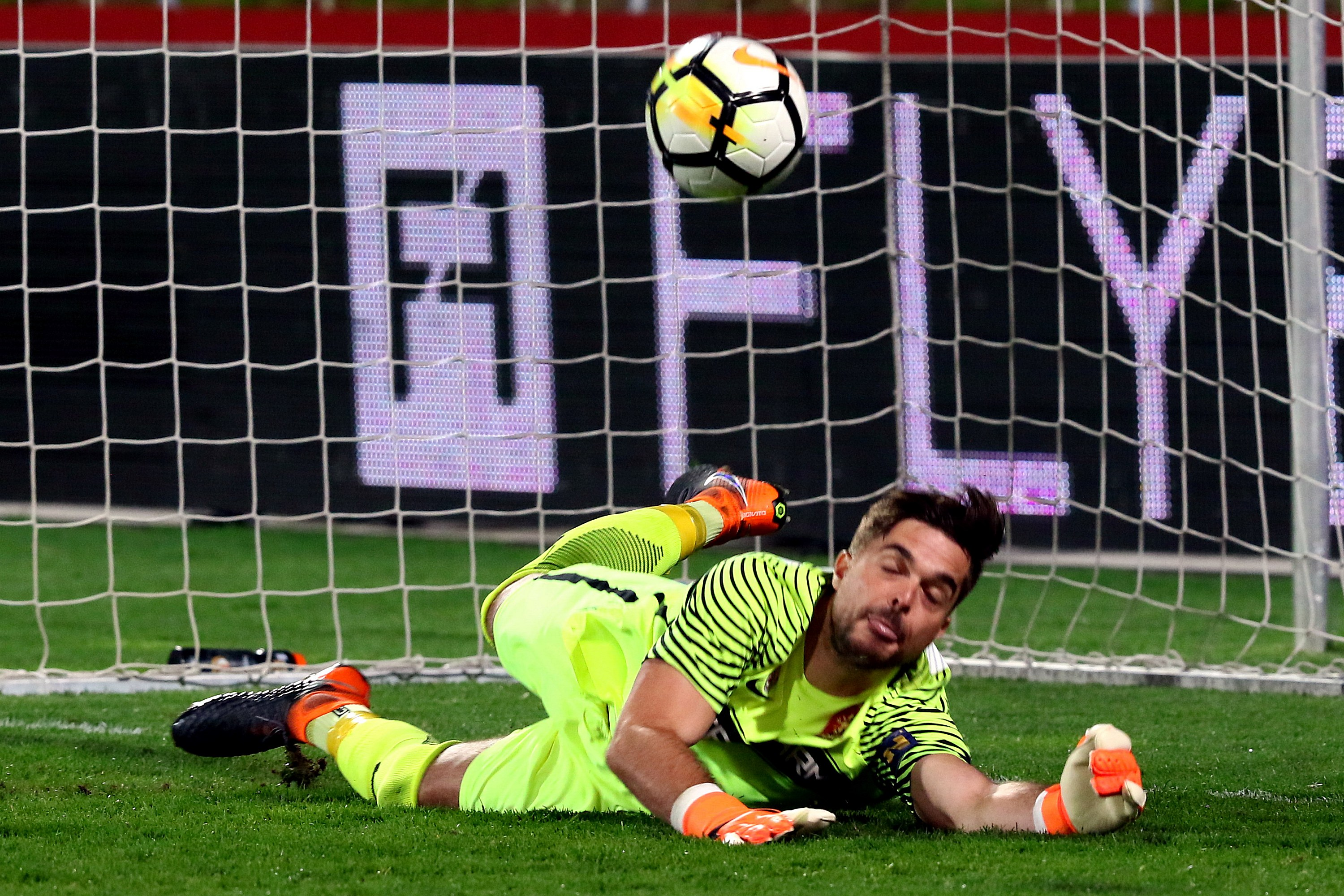 Championshipmatch of the Austrian Bundesliga 2017–18 FC Admira Wacker Mödling (red shirts) vs. FC Red Bull Salzburg (white shirts) 2-6 (1-3) at 2018-04-15 in the Bundesstadion Südstadt in Maria Enzersdorf. – The photo shows Andreas Leitner (goalkeeper of FC Admira Wacker Mödling).